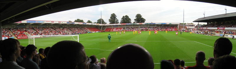 Cheltenham Town, Whaddon Road. Cheltenham v Tranmere, 8th August 2006. League 1.